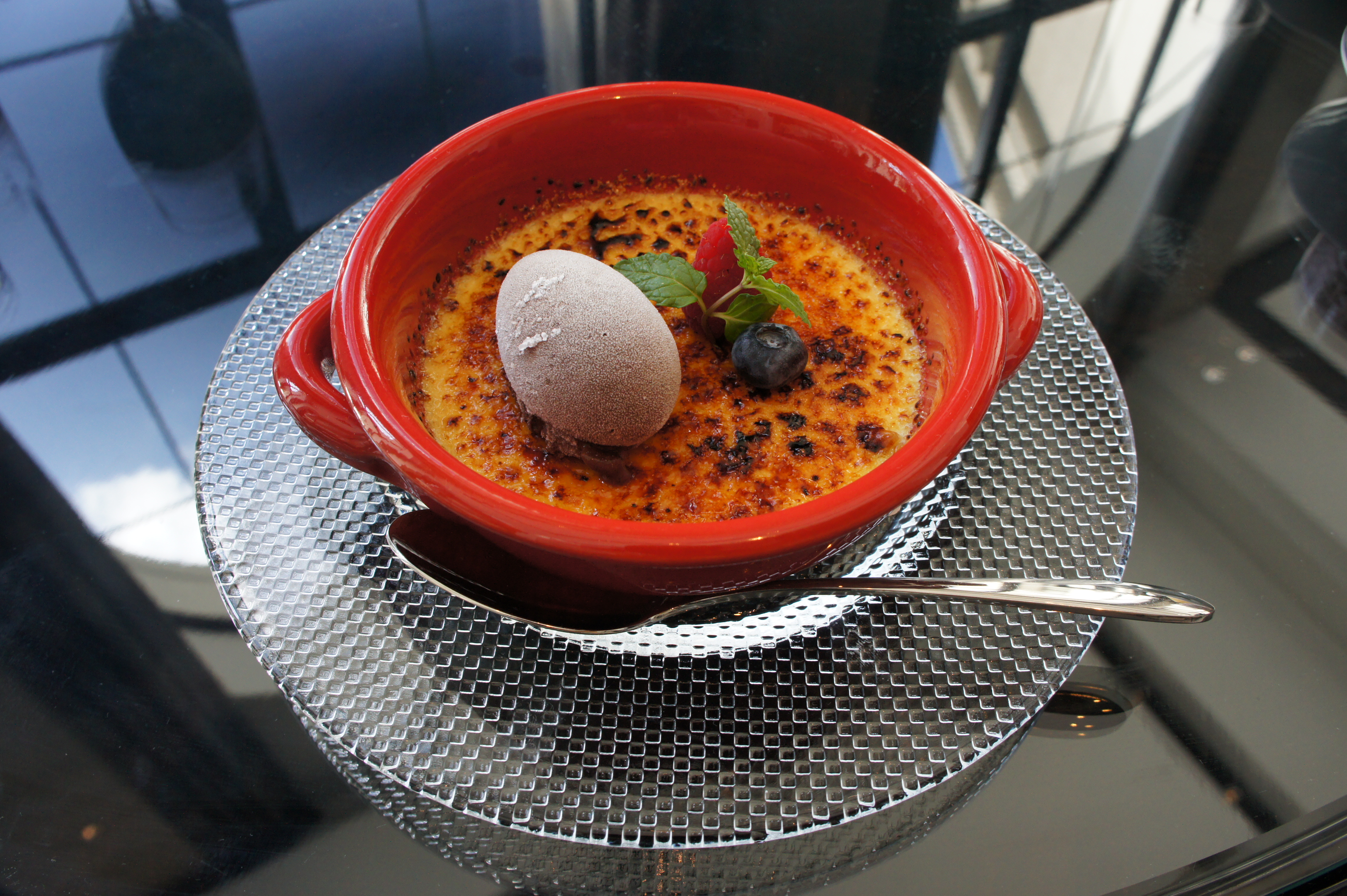 XIV Arima Rikyu in Kobe, Hyogo prefecture, Japan